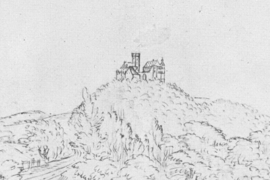 Olbrück Castle, detail of an old drawing